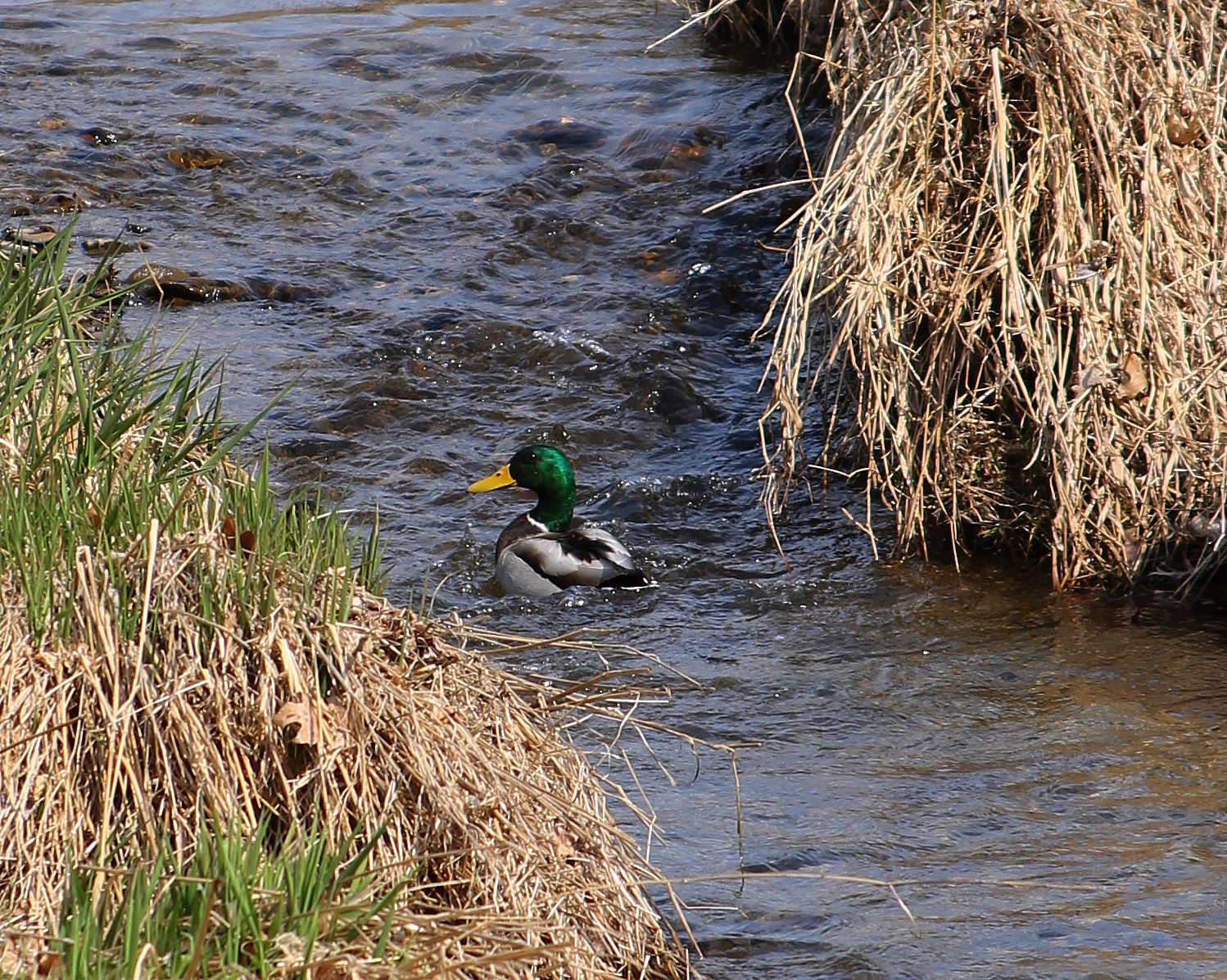 Duck in Broad Run, a tributary of Little Muncy Creek in Lycoming County, Pennsylvania